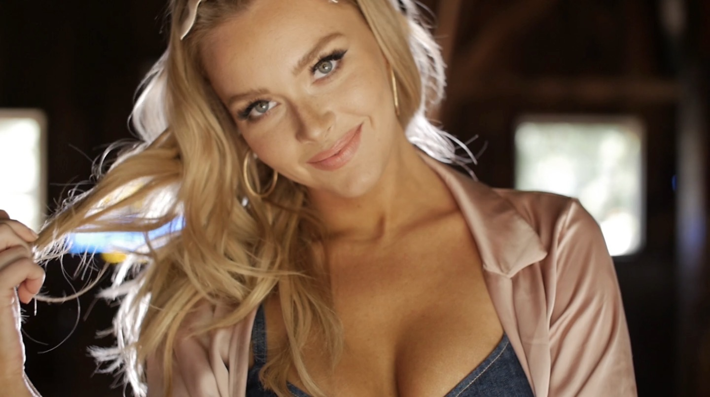 Camille Kostek in Malibu September 10, 2017